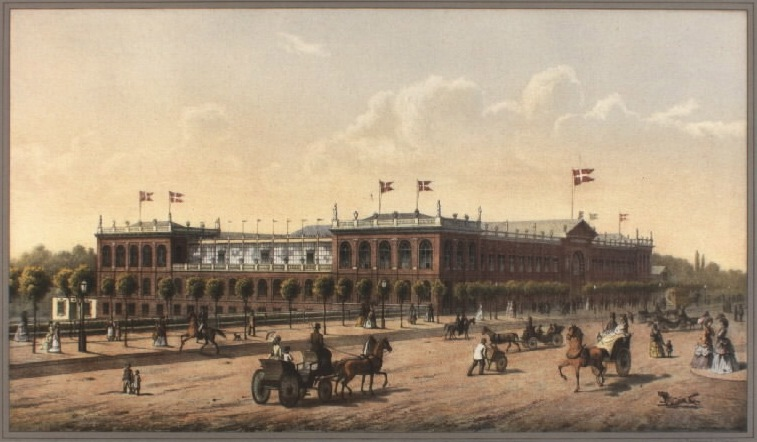 Industribygningen (The Building of Industry), headquarters of the Industrial Associal of Copenhagen. Erected 1872 in conjunction with the Nordic Exhibition, demolished 1976-77 and replaced by Industriens Hus.